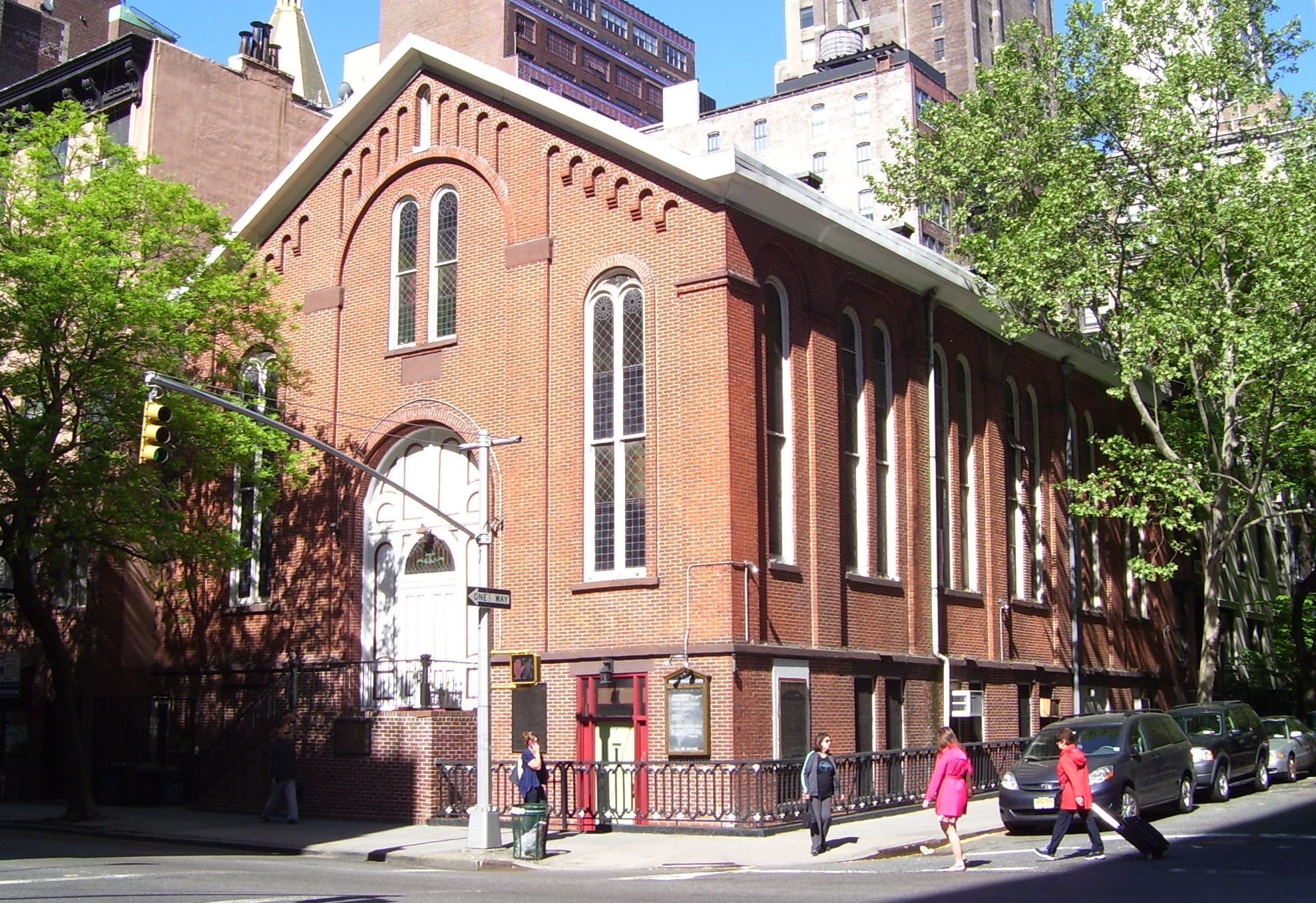 The First Moravian Episcopal Church at 154 Lexington Avenue on the corner of East 30th Street in the Rose Hill neighborhood of Manhattan, New York City was built c.1845 in Romanesque Revival style as the Rose Hill Baptist Church, which became the Madison Avenue Baptist Church. When the Baptist parish left, the church briefly became the Episcopal Church of the Mediator. The Moravian congregation, members of the Unitas Fratrum (Unity of the Brethren), had been organized in 1748, and had its first sanctuary on Fulton Street by 1752, which was replaced by a new building in 1829. The parish moved to their current location in 1869. (Source: From Abyssinian to Zion (2004))